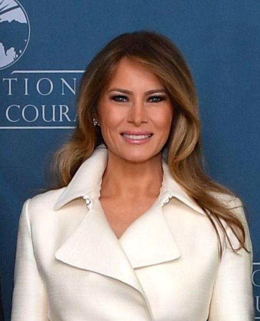 Melania Trump at International Women of Courage Awards 2017